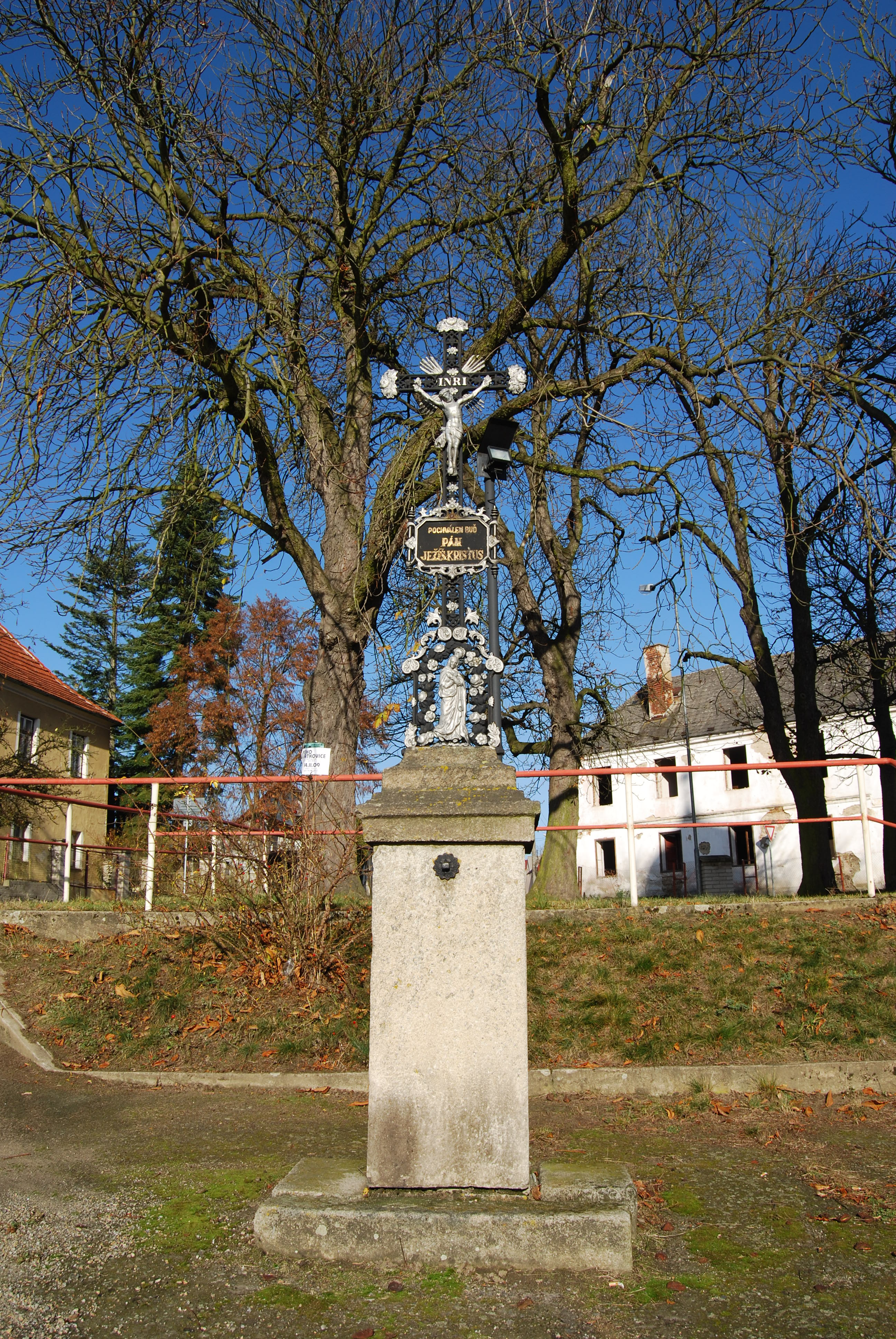 Chrášťany village in České Budějovice District, Czech Republic.